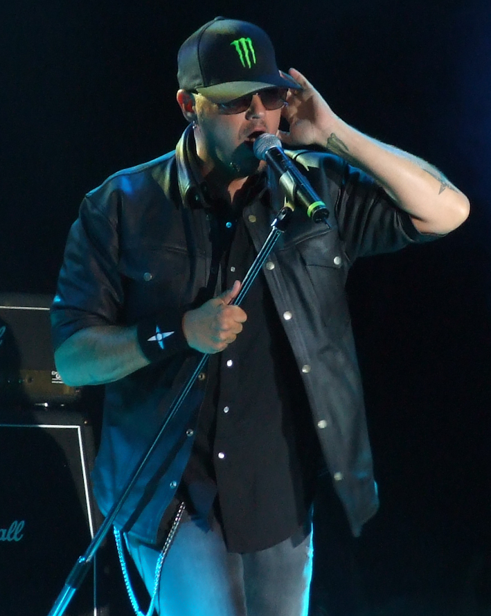 The American heavy metal vocalist Tim "Ripper" Owens performing with the tribute formation DIO Disciples at Kavarna Rock Fest 2012, Bulgaria.